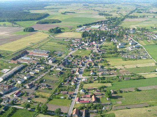 Drygały in aerial view